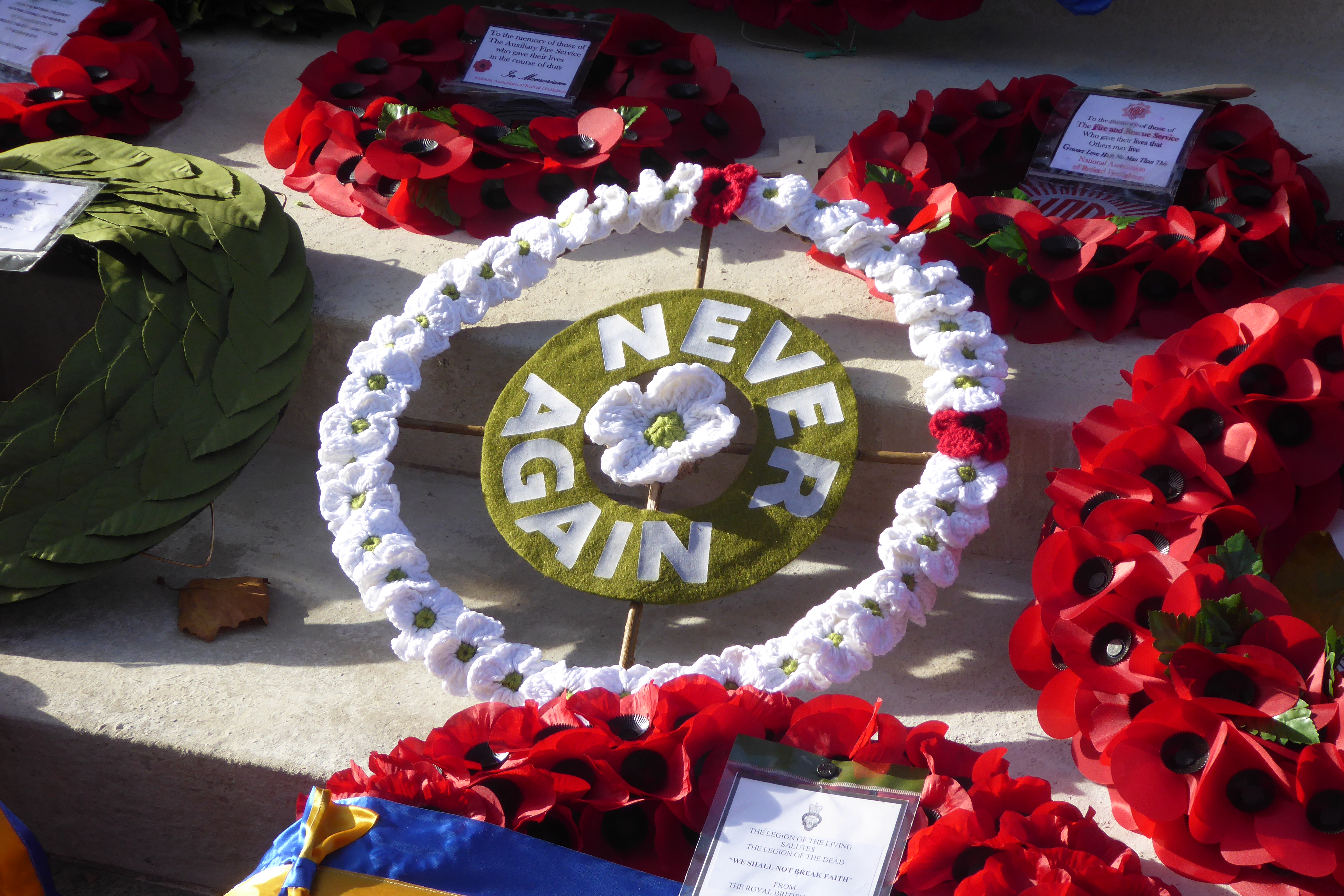 A white poppy wreath, symbolising peace, located on the eastern side of the Cenotaph in Whitehall in 2018, the centenary of the end of the First World War.